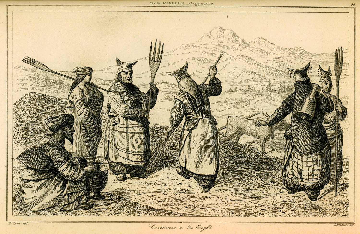 Traditional costumes of Inegi in Cappadocia. Félix Marie Charles Texier. Asie Mineure. Description géographique, historique et archéologique des provinces et des villes de la Chersonnèse d’Asie, Paris, Firmin-Didot, MDCCCLXXXII (1882).